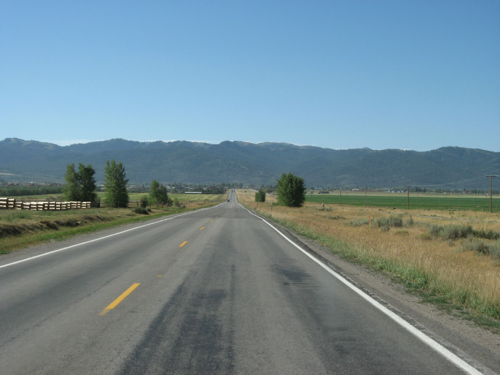 Idaho State Highway 33 between Driggs, Idaho and Victor, Idaho